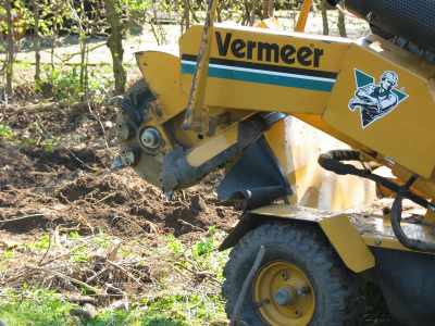 Vermeer stump grinder machine